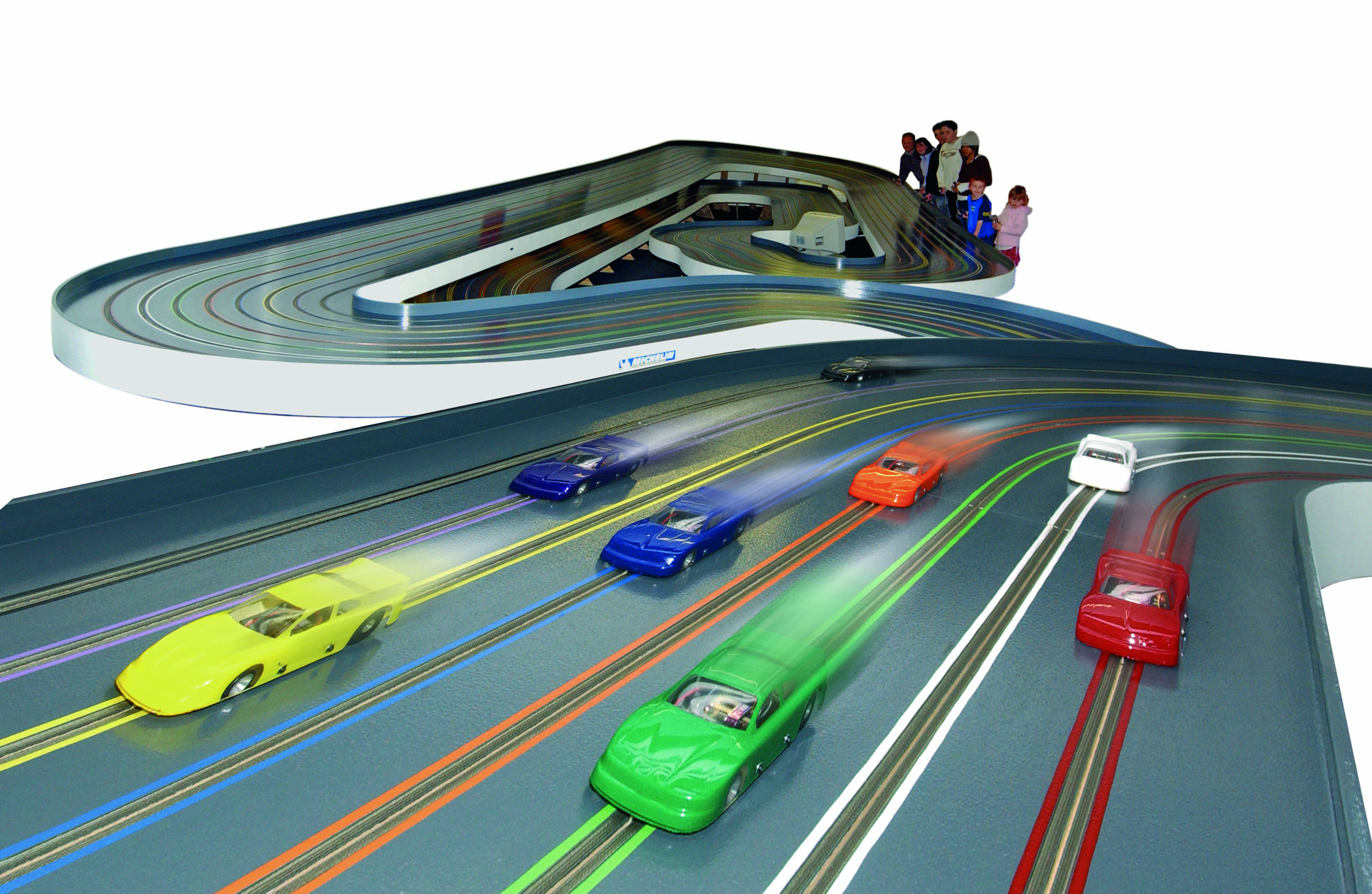 Indoor Slot Car track